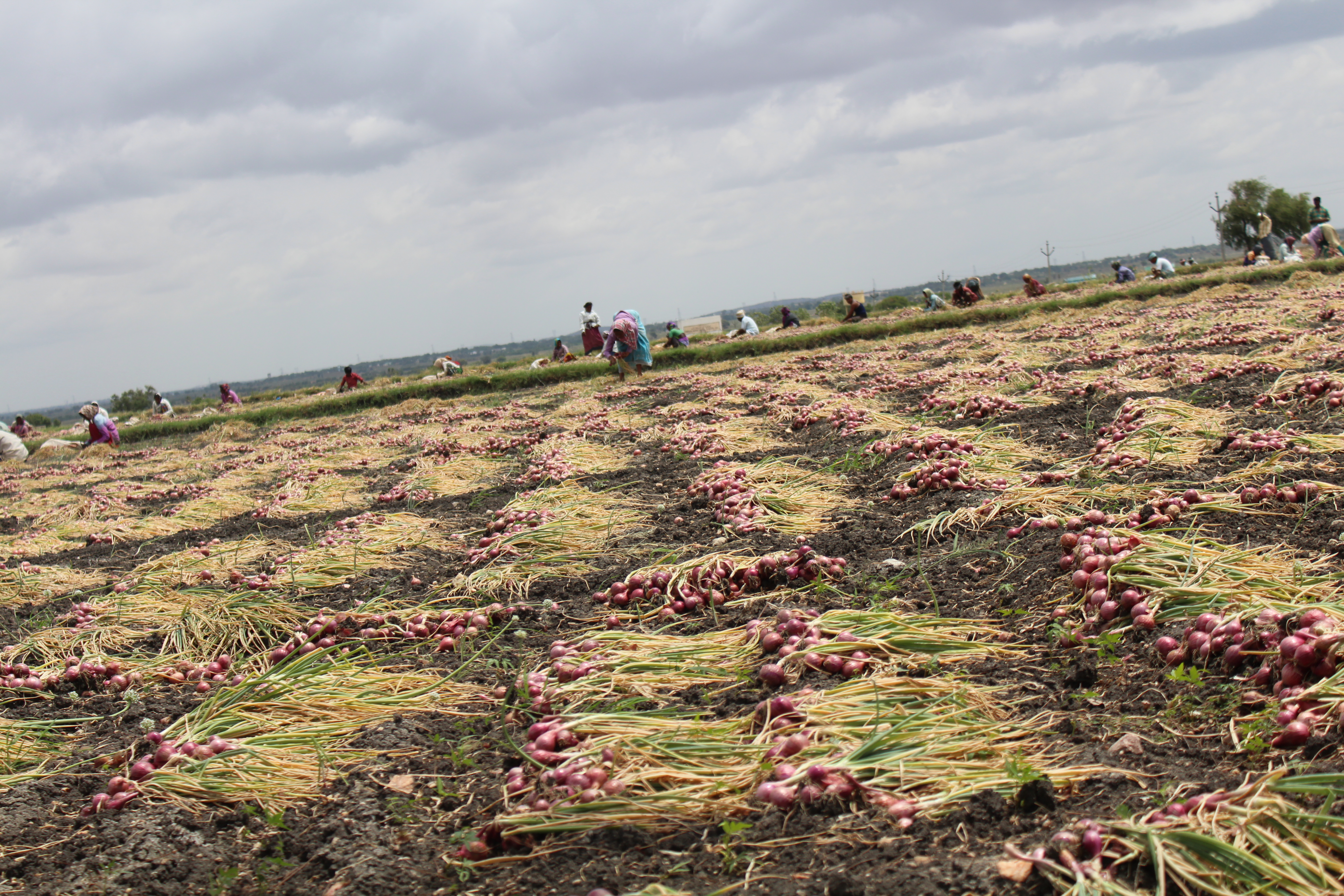 Onion crop can be grown successfully on heavy soil Onion requires well drained loamy soils, rich in humus, with fairly good content of potash